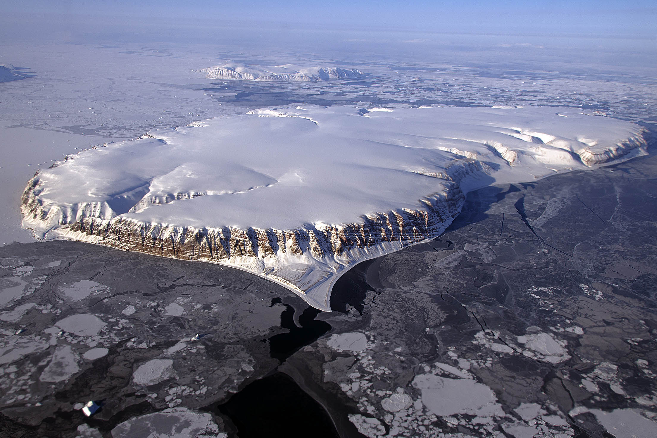 Saunders Island, a small island of north west Greenland; an aerial view of ice-capped Saunder’s Island ringed by a layer of thin sea ice in Baffin Bay.